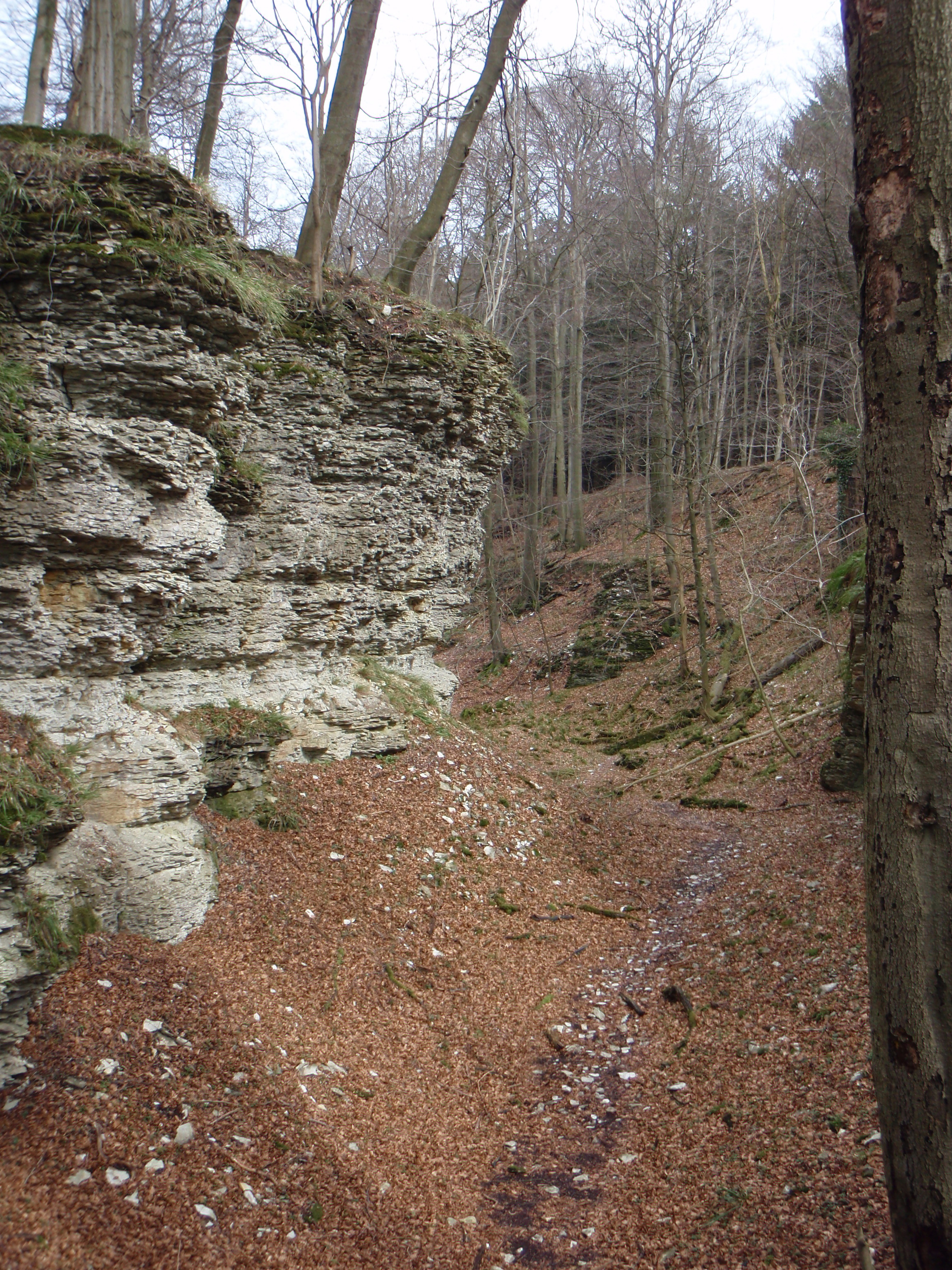 The Bielstein canyon is located in the nature reserve Bielsteinhöhle near Horn-Bad Meinberg in North-Rhine-Westfalia, Germany